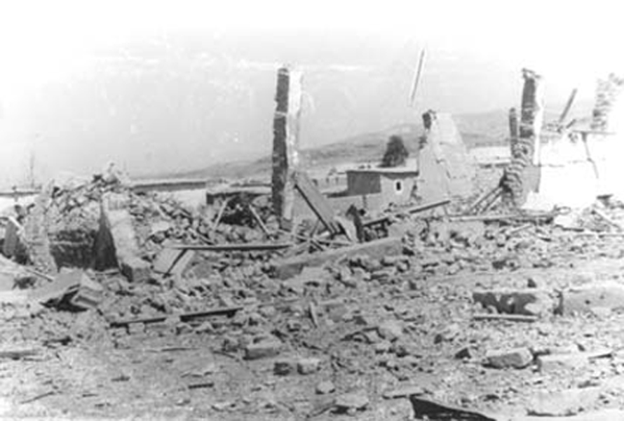 Al Karama Battle Aftermath 21 March 1968 - Destruction at Al Karama Village